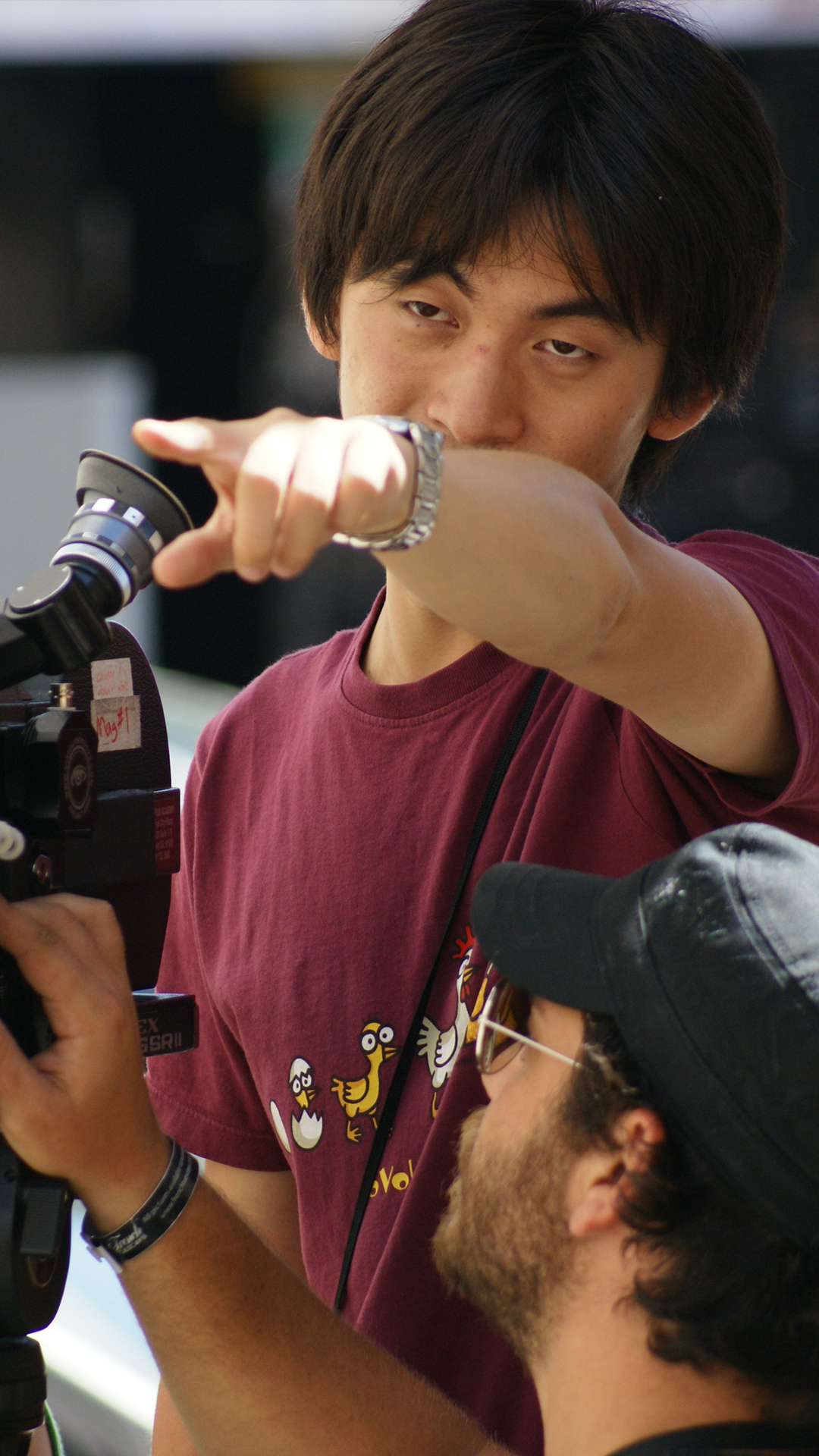 Xu Xiaoxi behind the camera in Desire Street (a film by Roberto F. Canuto & Xu Xiaoxi) 2